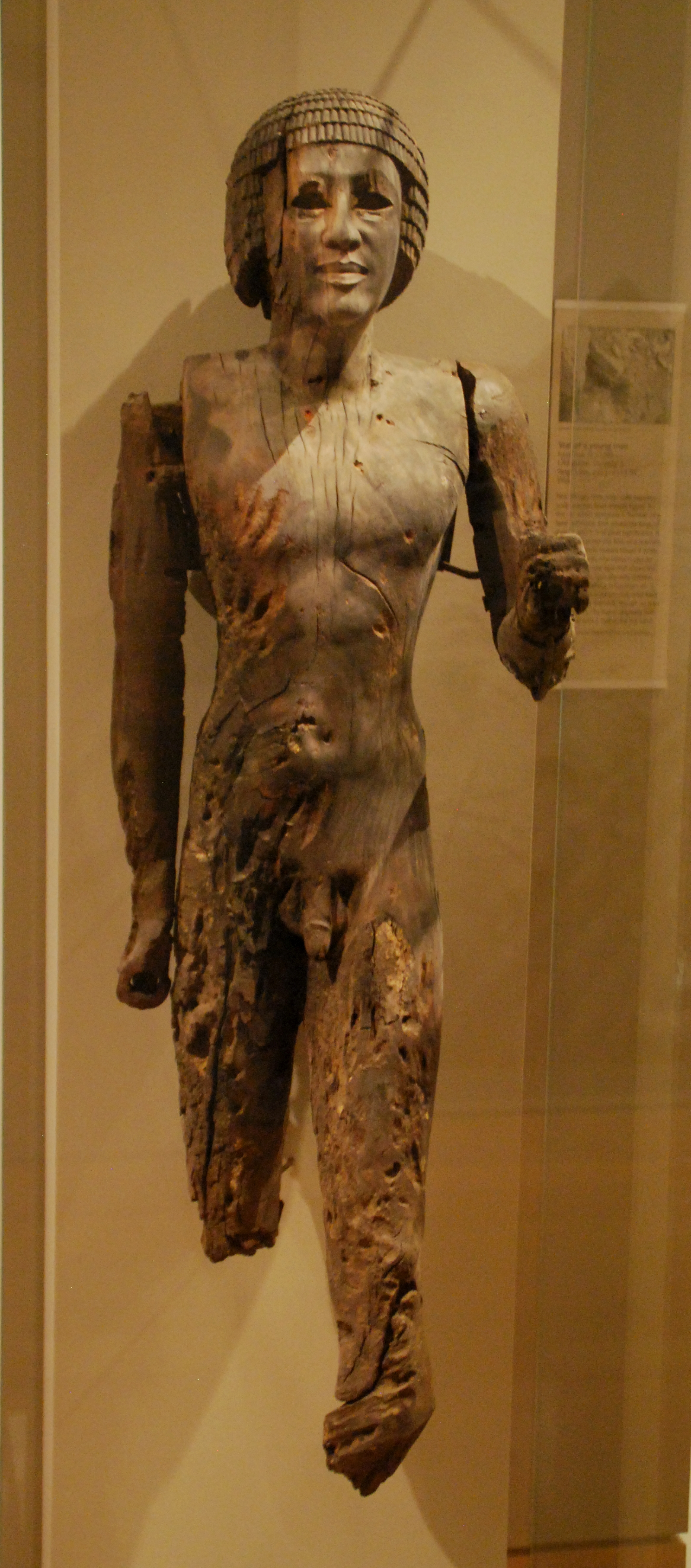 Statue of a young man at the Museum of Fine Arts. Wood. From Egypt (Giza G2378), Reign of Unis; Old Kingdom, 5th Dynasty